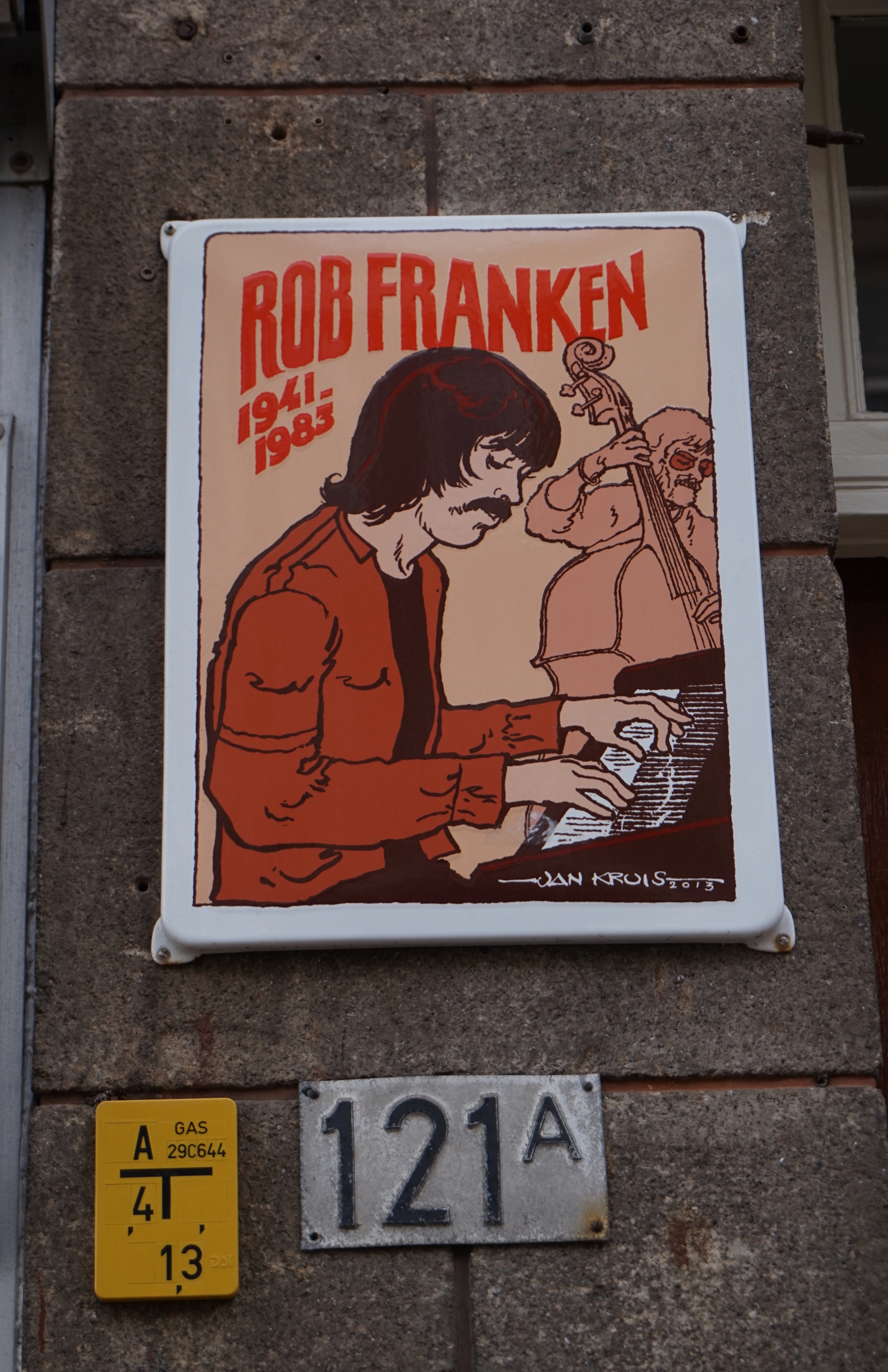 Rob Franken by Jan Kruis